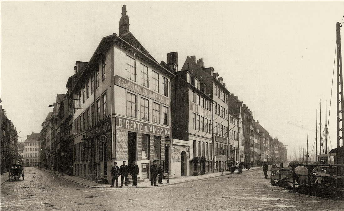 The corner of Nyahvn and Store Strandstræde in Copenhagen, Denmark